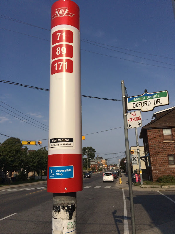 At TTC bus stop pole along Weston Road